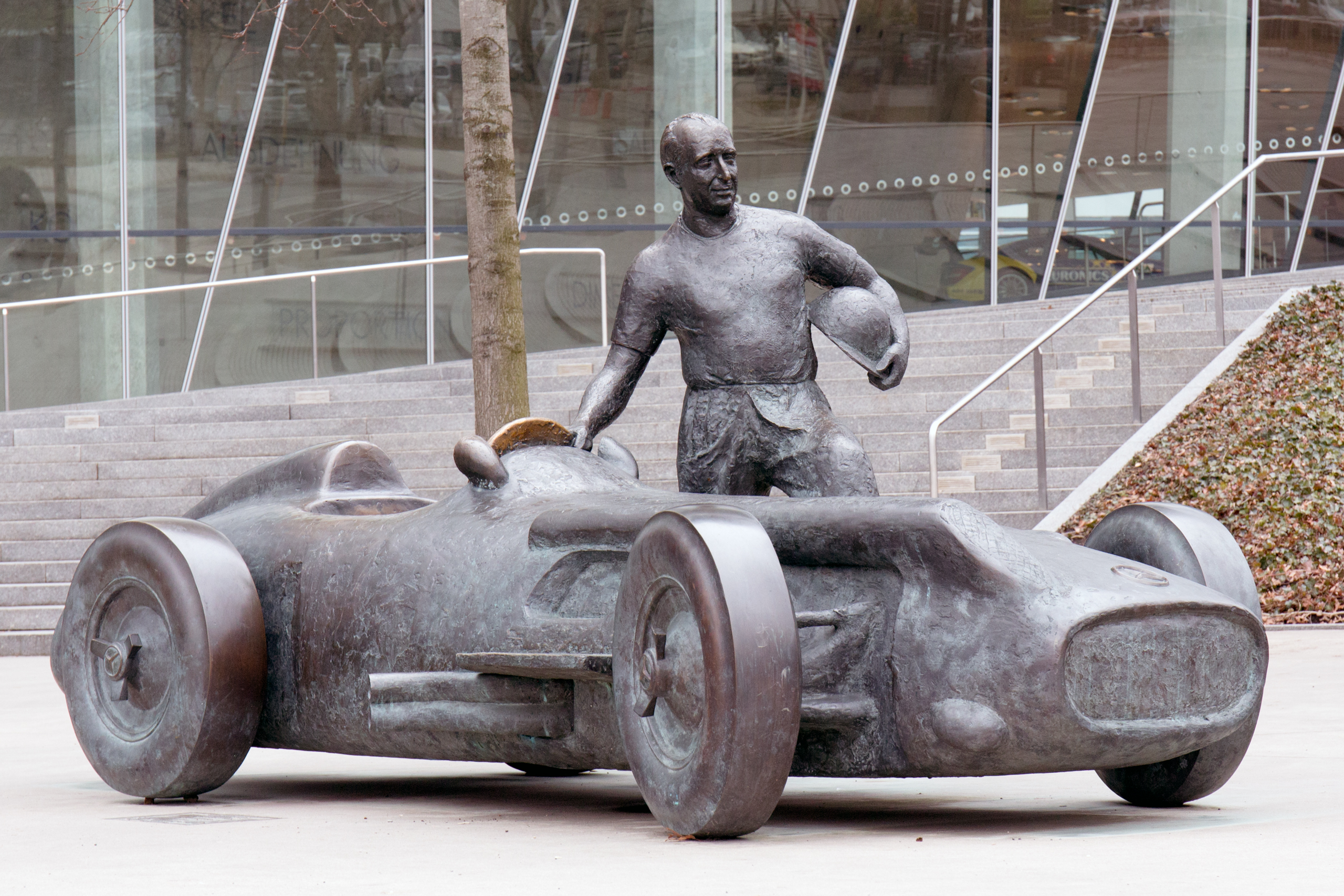 Statue of Juan Manuel Fangio at the Mercedes-Benz Museum